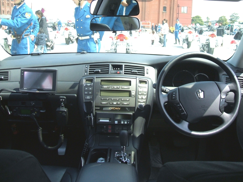 Toyota Crown Police car interior.